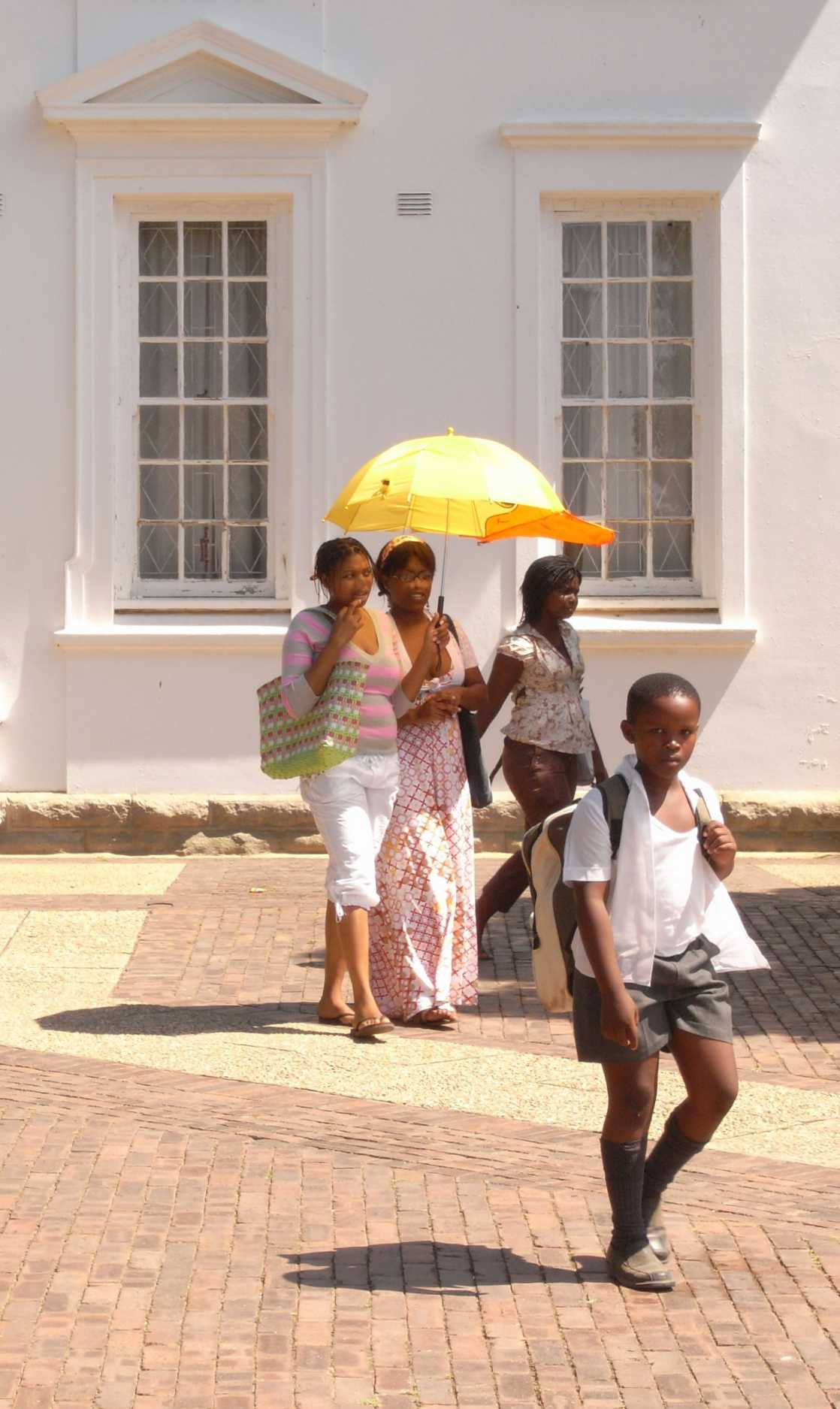 Campus University of Fort Hare of Alice (Eastern Cape, RSA)